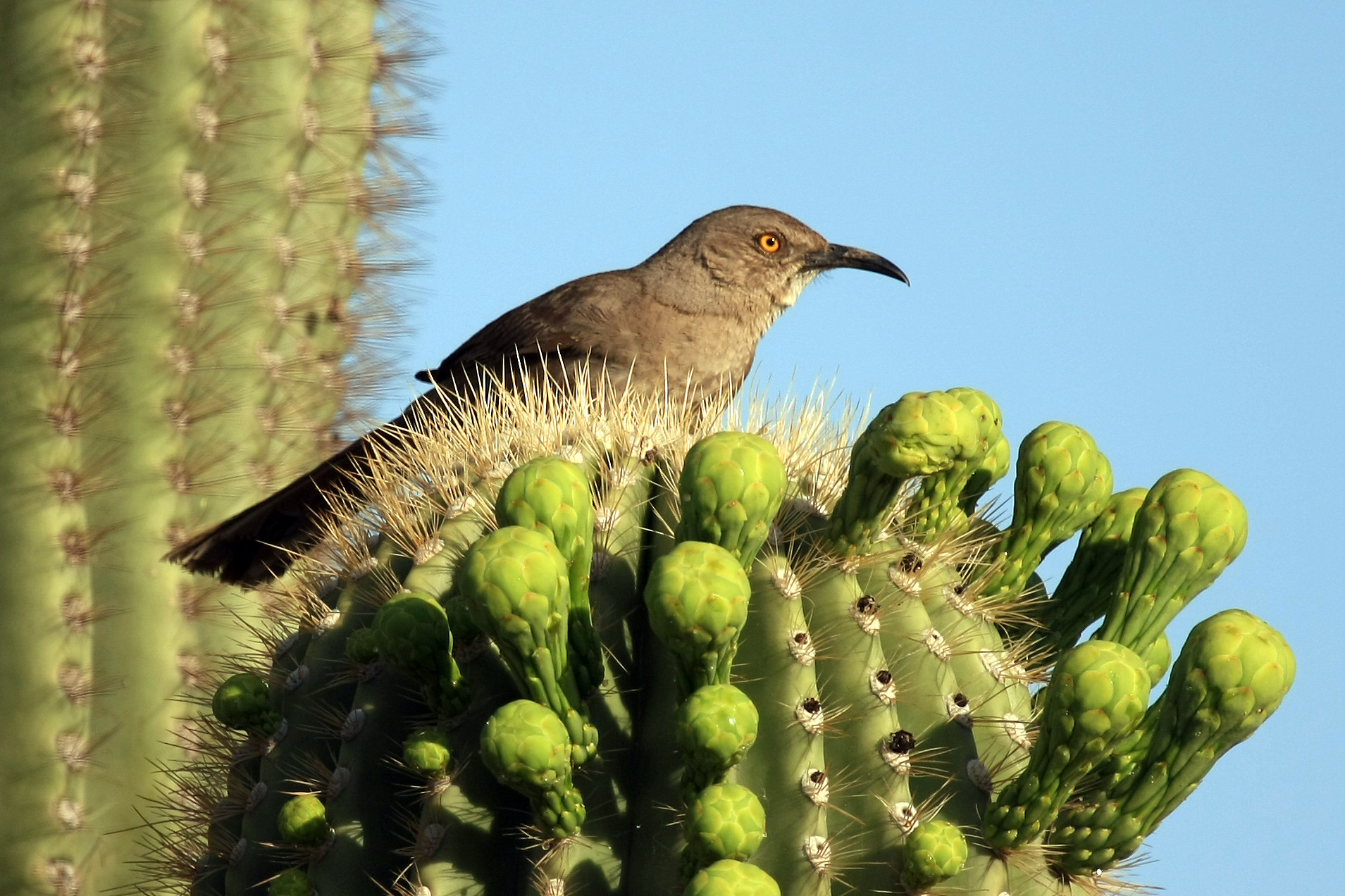 Toxostoma curvirostre perched on Carnegiea gigantea, Arizona